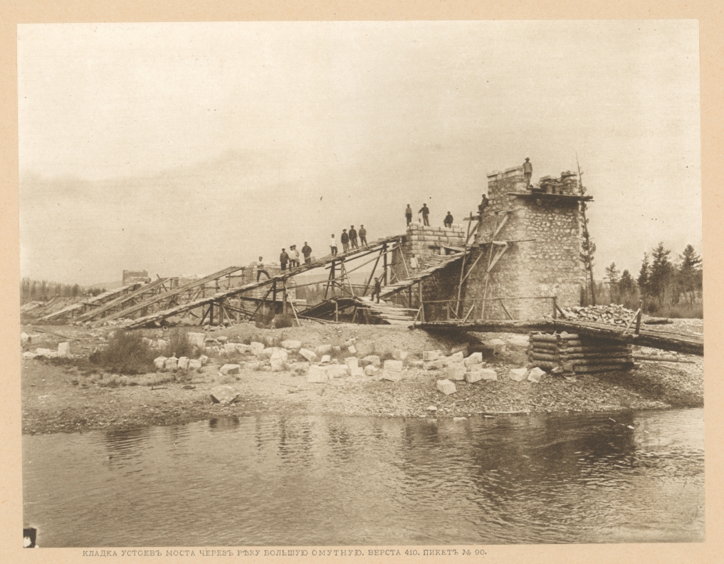 Railway workers at a construction over the river Bolshaya Omutnaya at the Amur Railway (410th verst, piket nr. 90) during construction